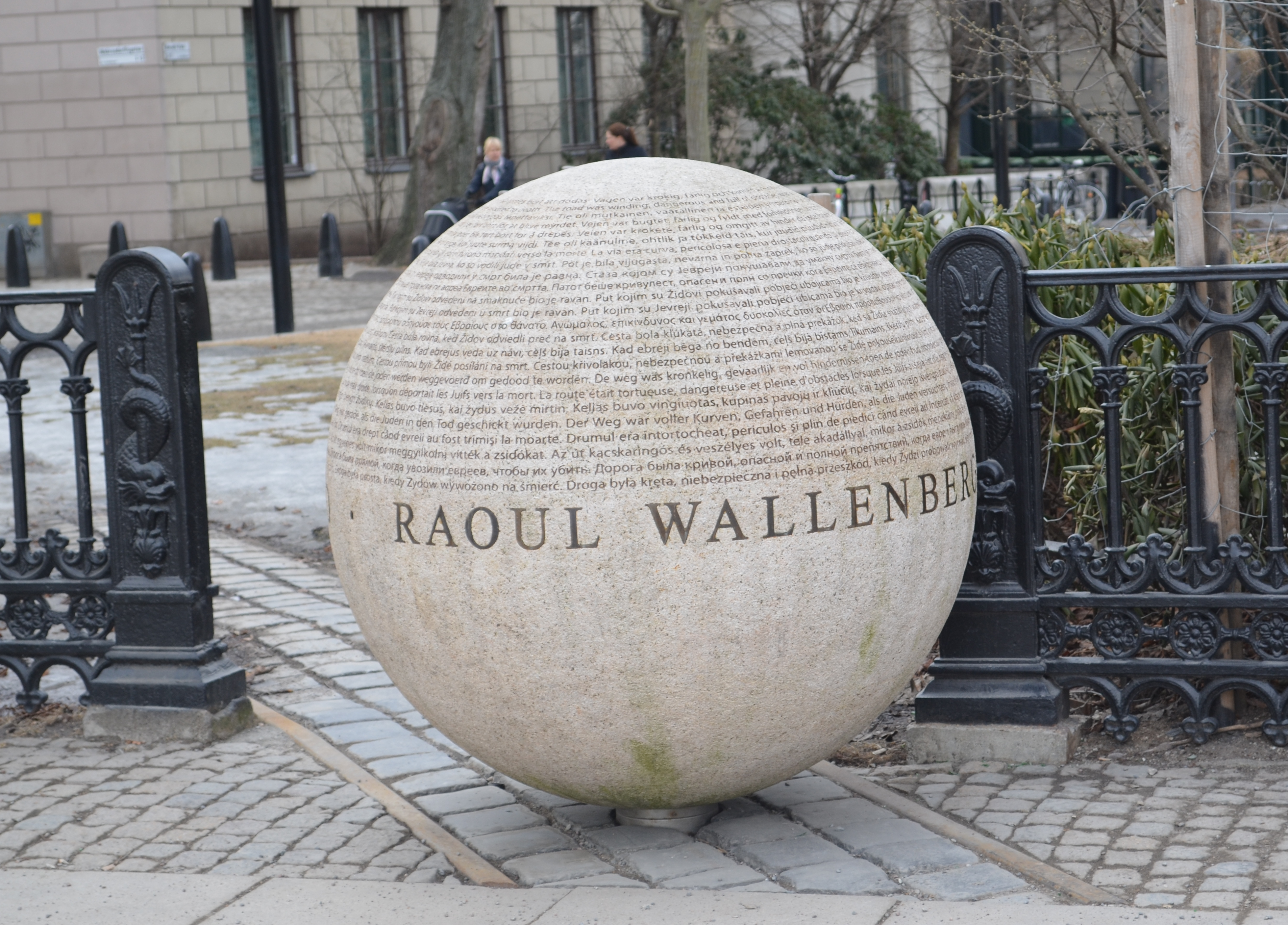 Stockholm, Raoul Wallenberg Memorial at Raoul Wallenberg torg